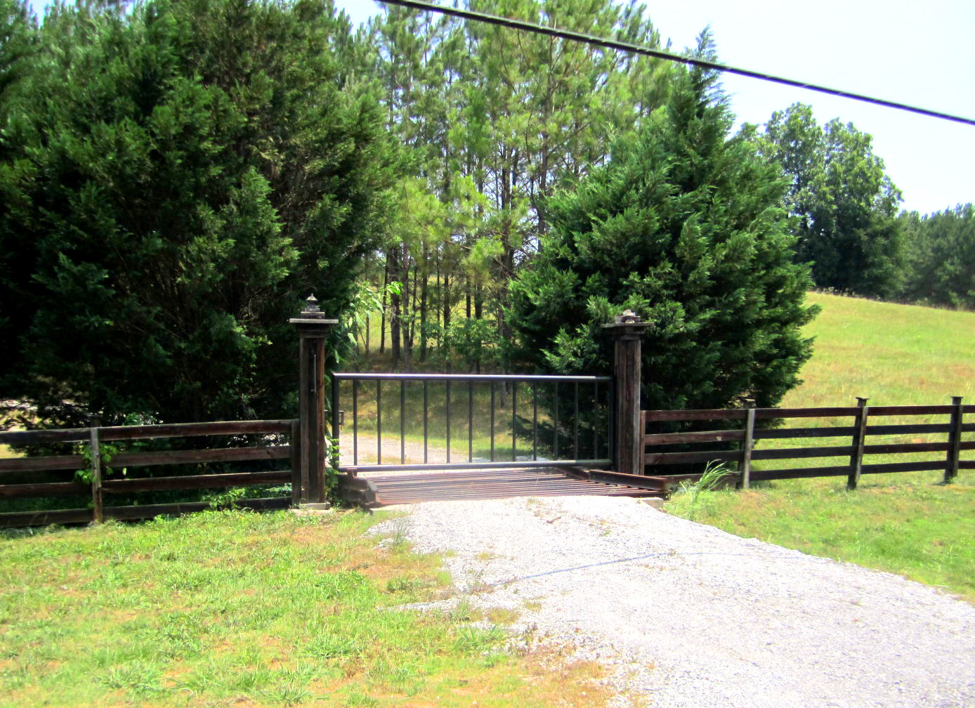 The main gate at Montebrier, a former plantation house in Brierfield, Alabama. The house is not visible from the highway.